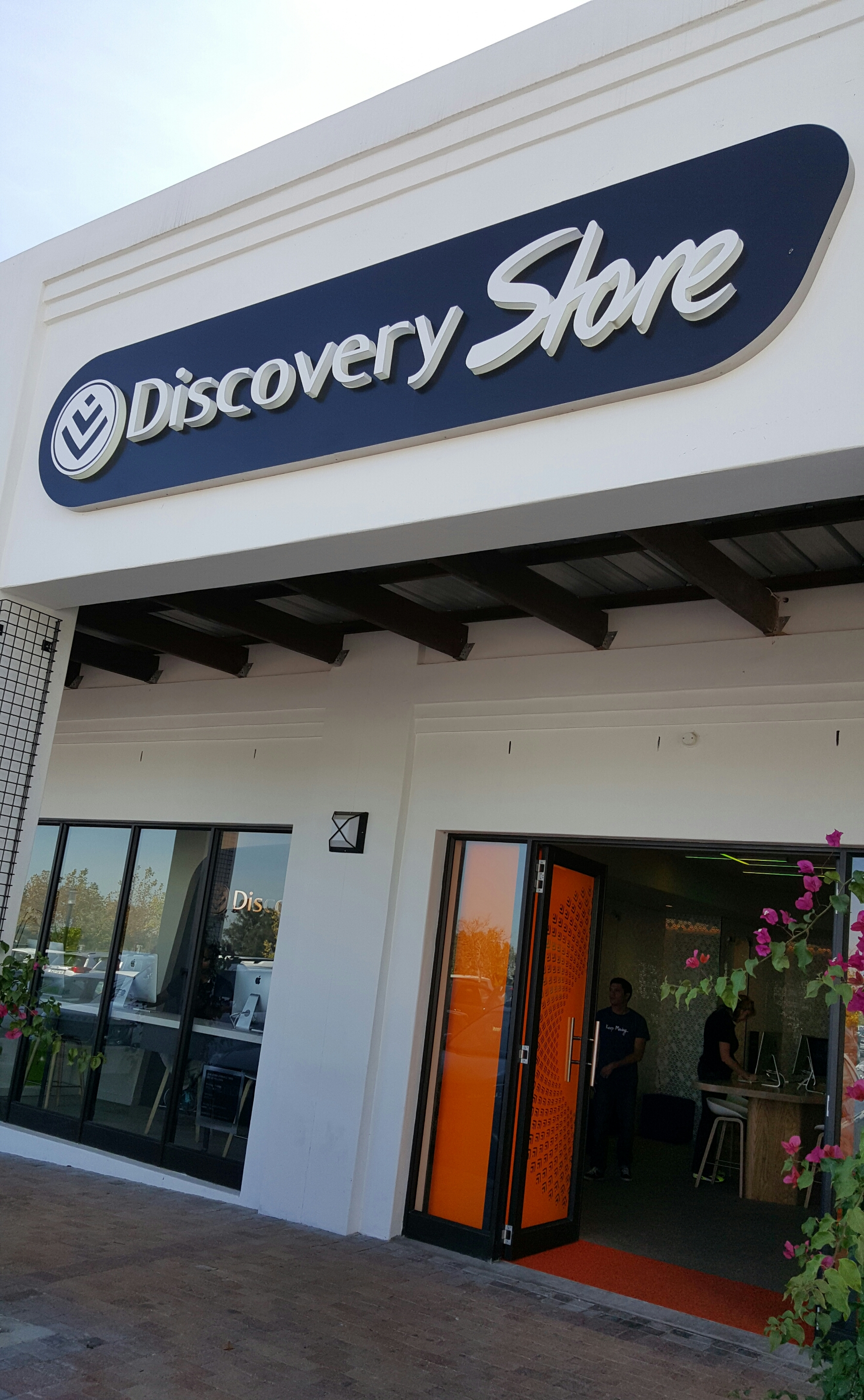 Discovery retail store in Stellenbosch Square shopping centre, Stellenbosch, Western Cape, South Africa